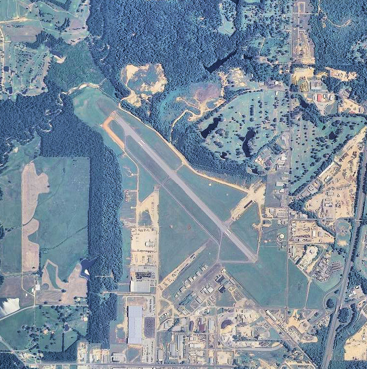 USGS digital orthophoto of Hesler-Noble Field in Mississippi